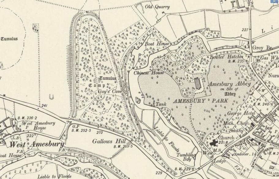 Section of the six inches to the mile OS map of Wiltshire, England published in 1901. It shows the location of Vespacians Camp Iron Age hill fort in relation to West Amesbury, Amesbury Abbey and the modern town of Amesbury.